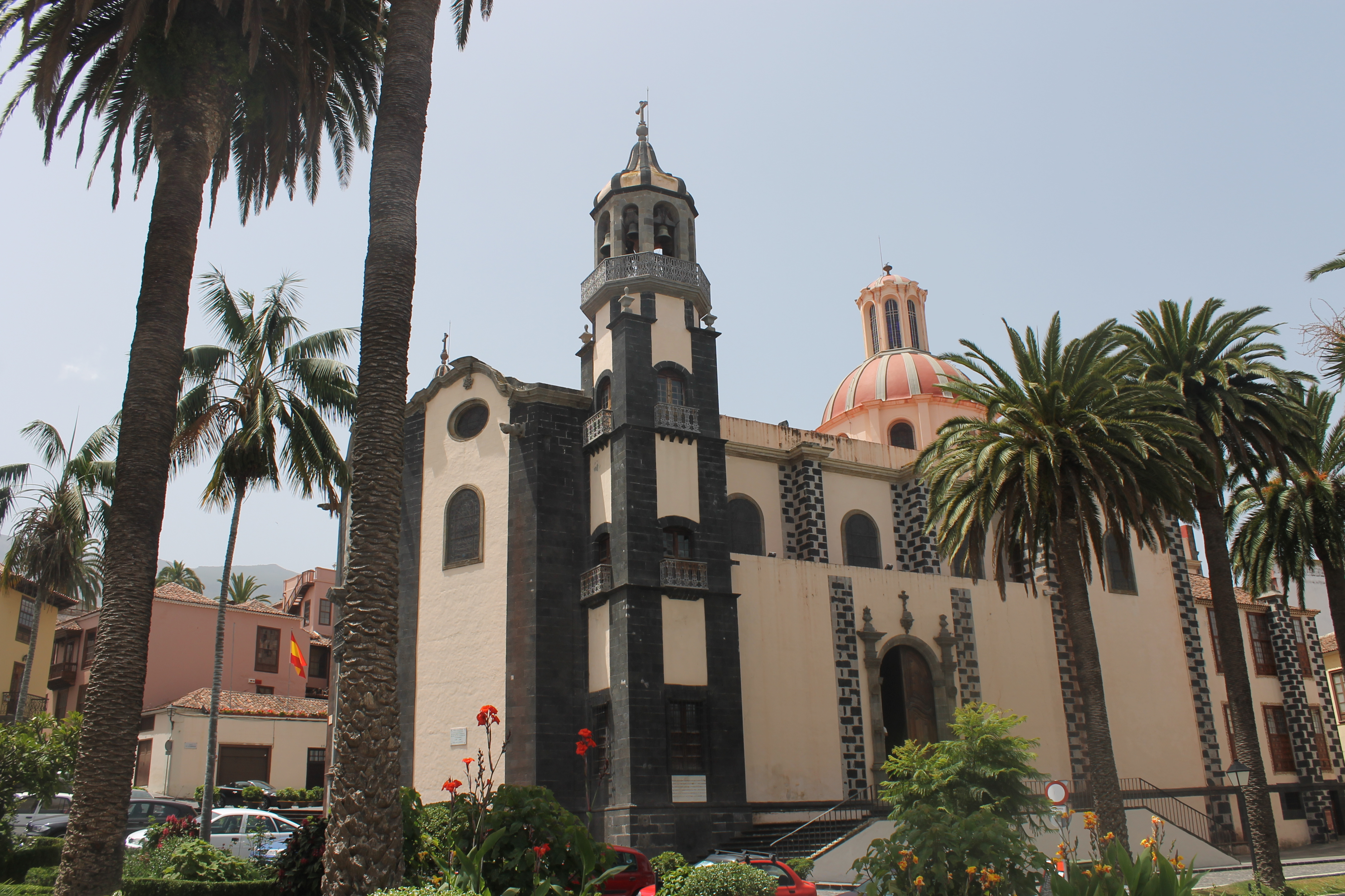 Immaculate Conception Church in la Orotava, Teneriffe